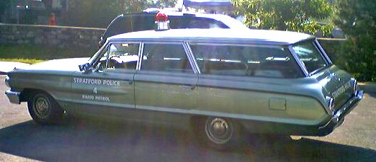 Antique, 1964 police cruiser used by the Stratford, Connecticut police department. Because it was used before the 1978 establishment of a volunteer EMS service in that town, a stretcher and room for patients is included in the back for use as an Ambulance.